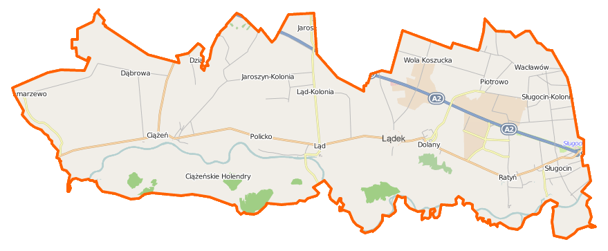 Map of Gmina Lądek, Poland This map of Lądek (gmina) was created from OpenStreetMap project data, collected by the community. This map may be incomplete, and may contain errors. Don't rely solely on it for navigation. Border coordinates52.251317.7347←↕→18.036552.1750